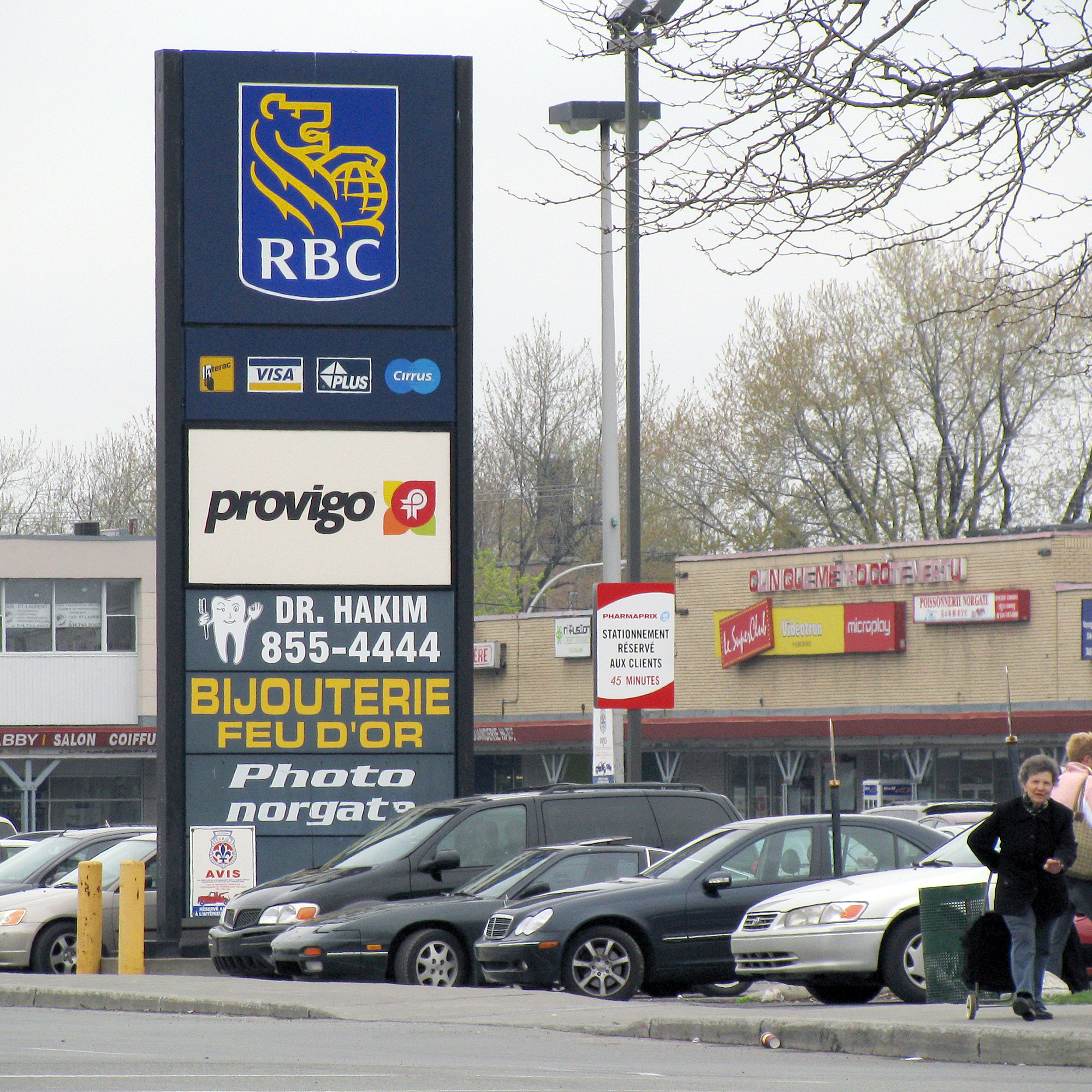 Norgate shopping centre sign and mall